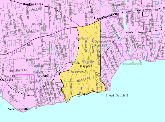 U.S. Census 2000 reference map for Bayport